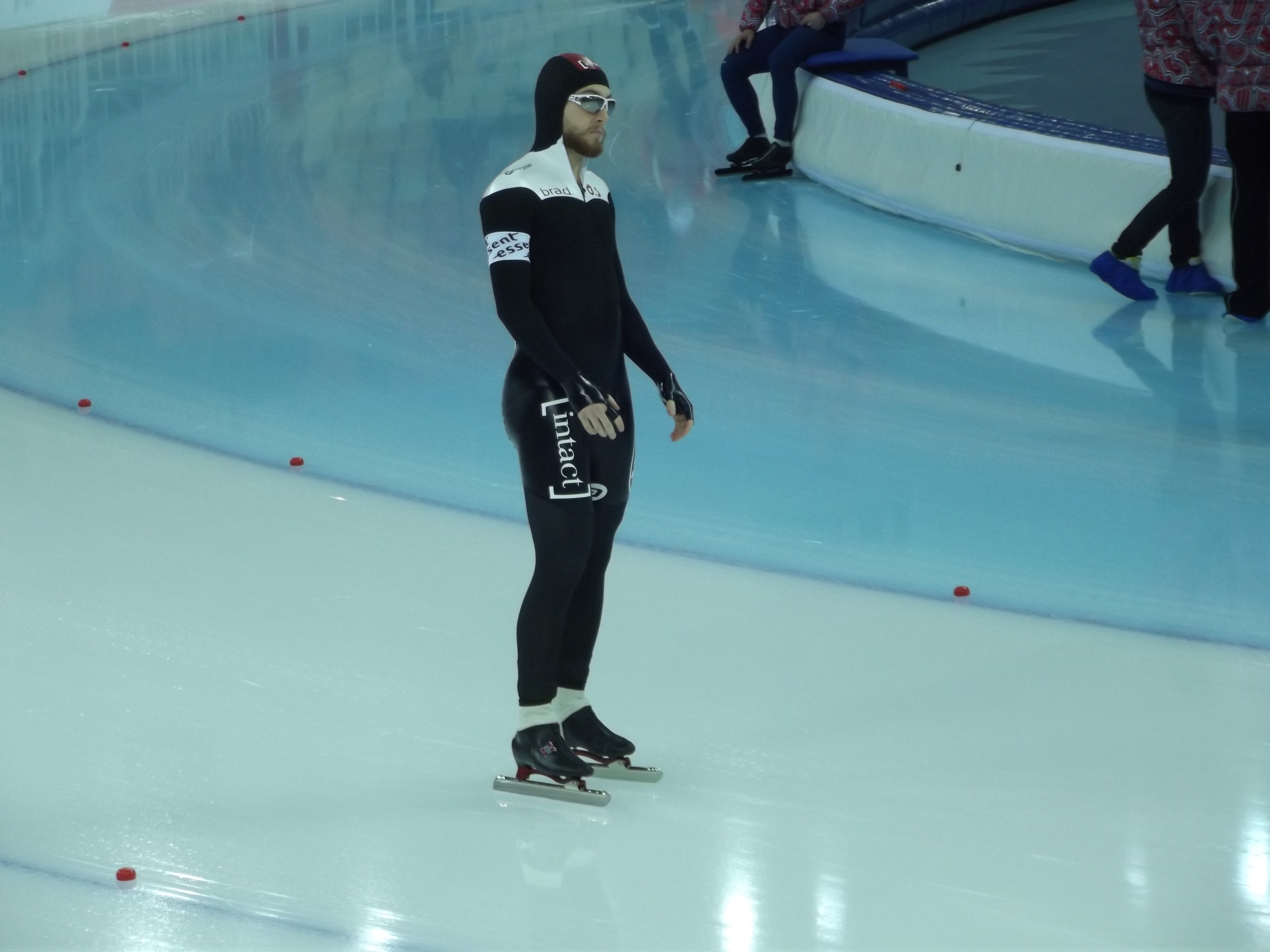 2013 World Single Distance Speed Skating Championships